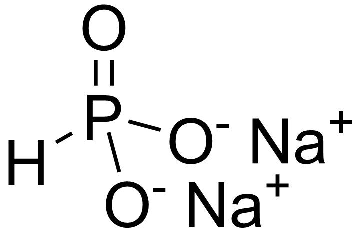 chemical structure of disodium hydrogen phosphite